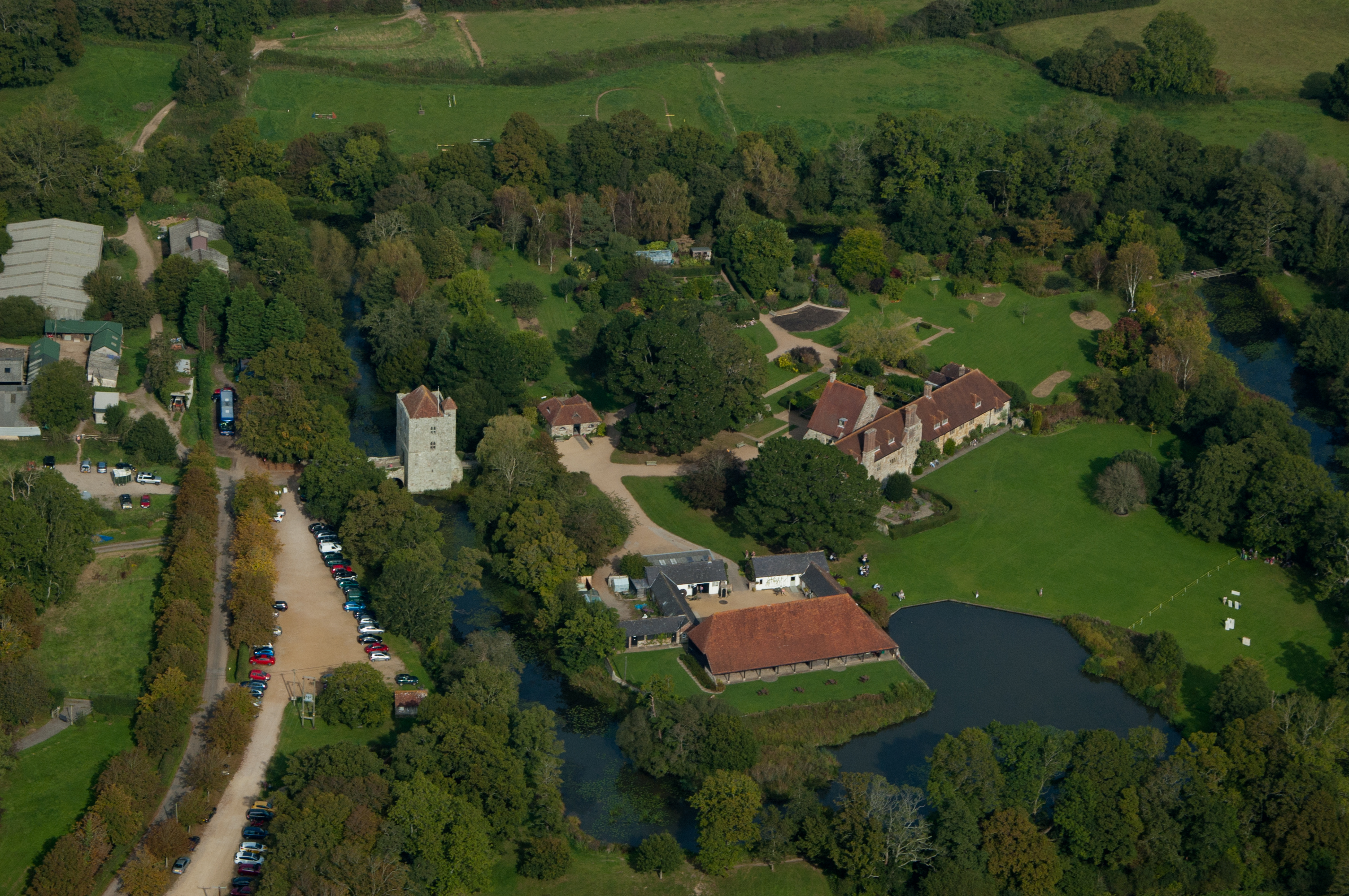 Aerial view of Michelham Priory, Moat and Barbican Tower, Milton Hide, Arlington, Wealden, East Sussex.